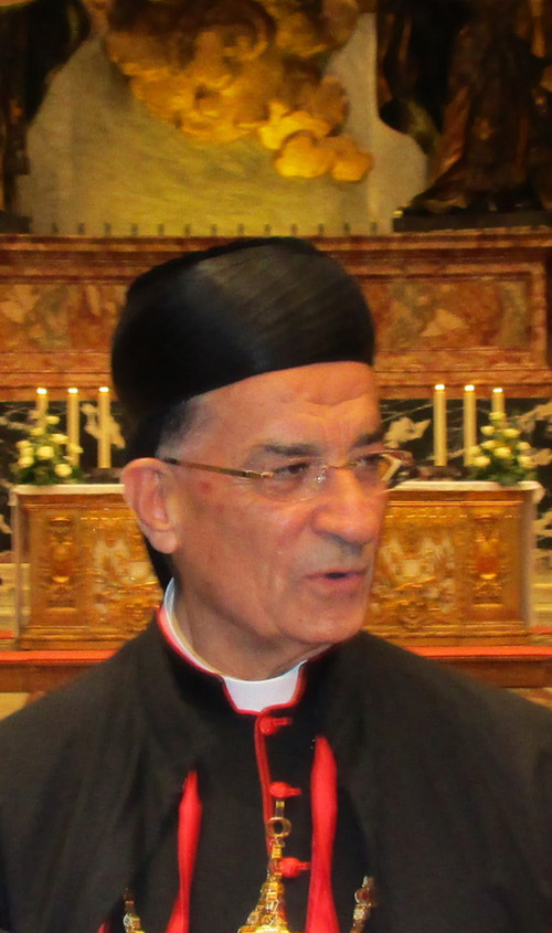 Maronite patriarc Béchara Boutros Raï at Chair of Saint Peter, Oct., 11th, 2014.